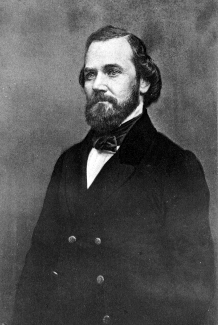 Laurence M. Keitt, U.S. Congressman from South Carolina